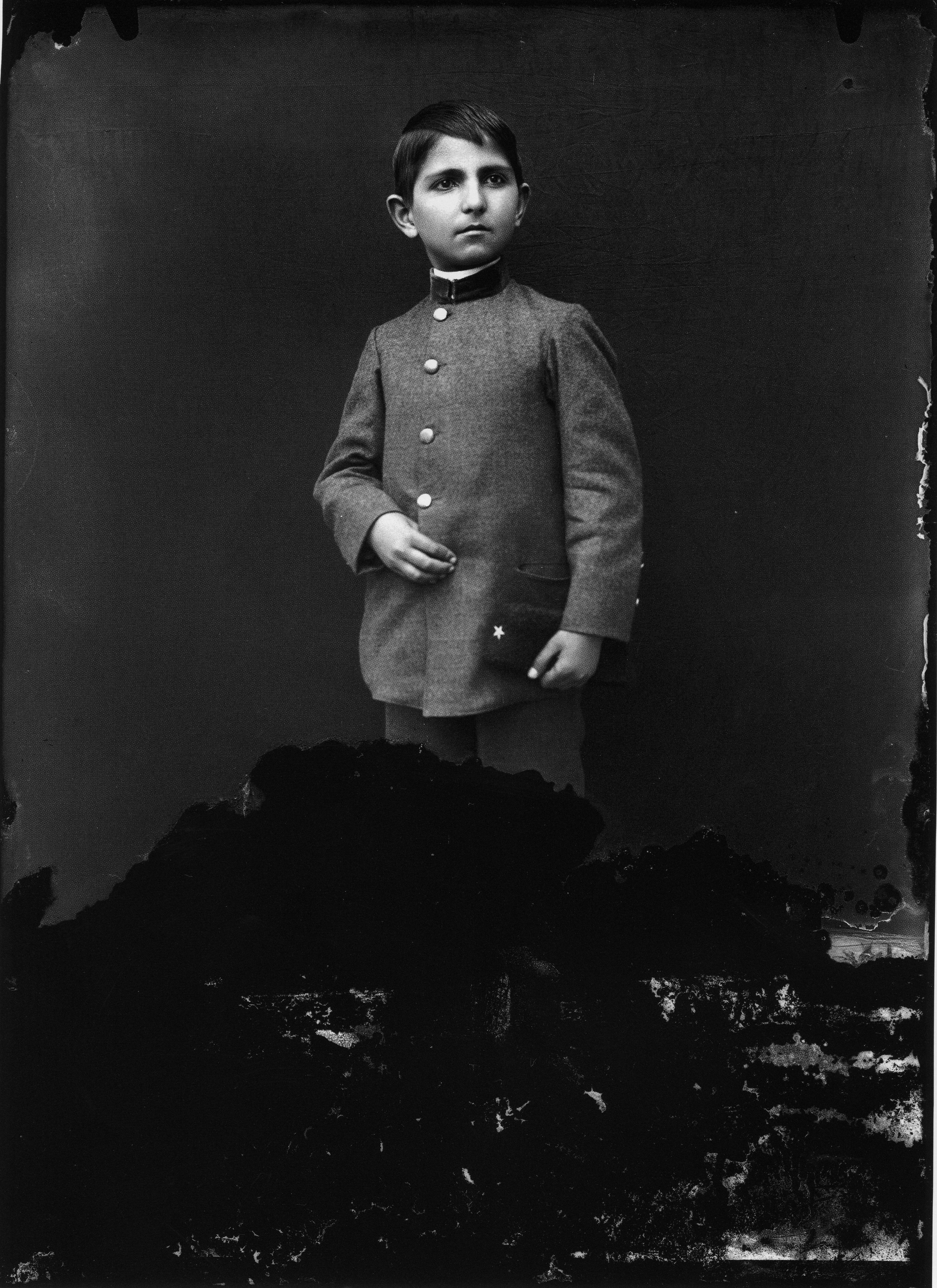 Pupil of the Bulgarian school in Kastoria.